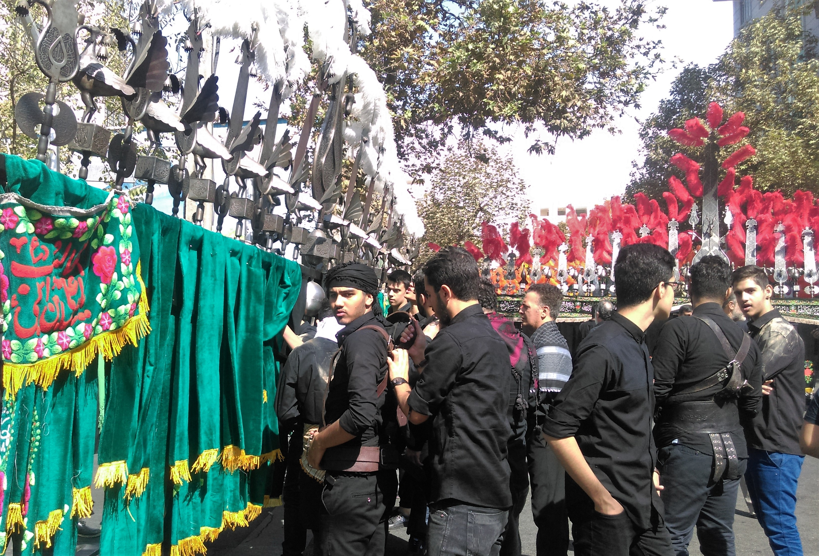 Moharram commemoration in Tehran, Iran.